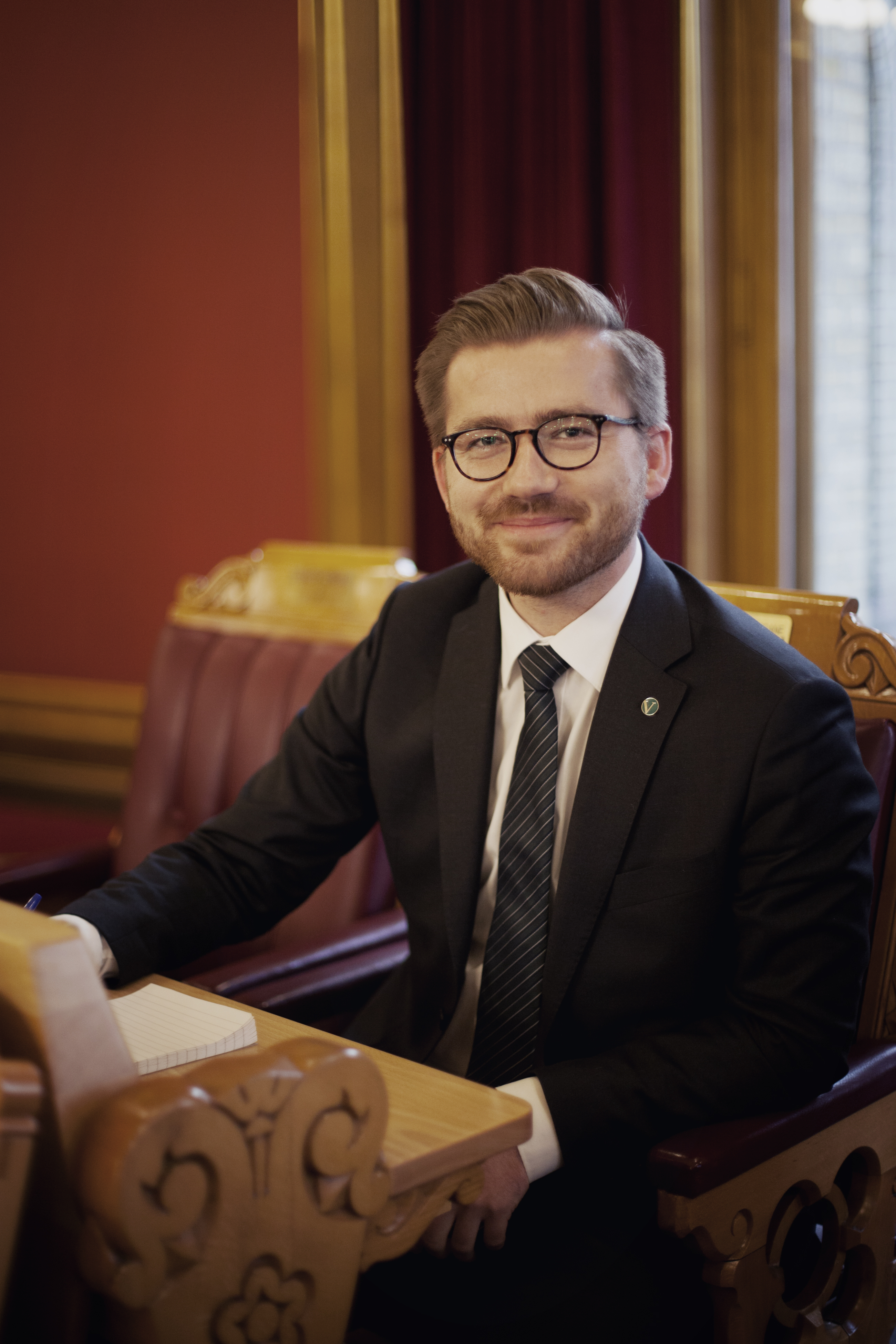 Sveinung Rotevatn, Foto: Mona Lindseth / Venstre